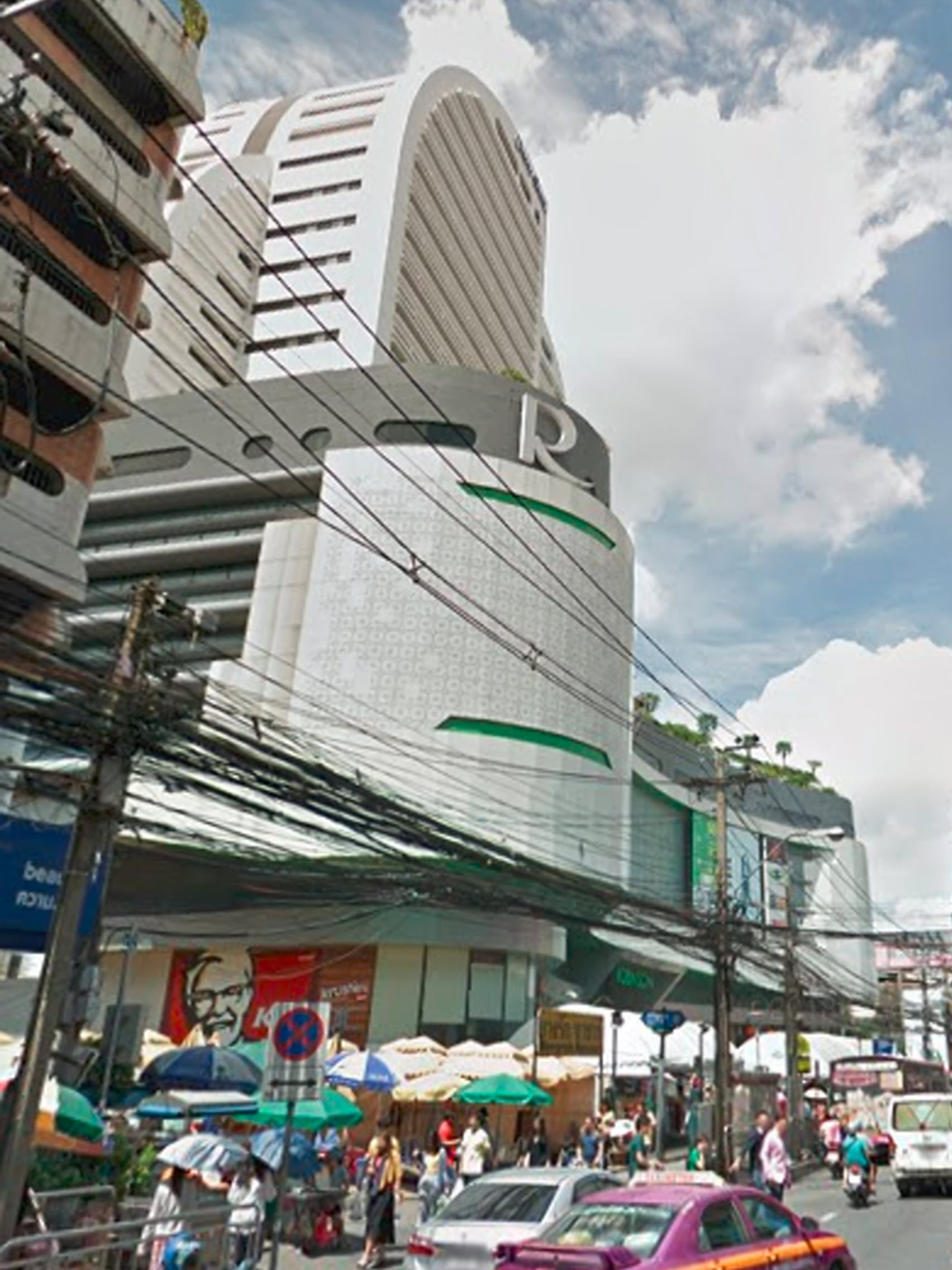 Robinson Department Store - Bangrak Branch Address: Charoenkrung Road, Silom, Bangrak, Bangkok, THAILAND